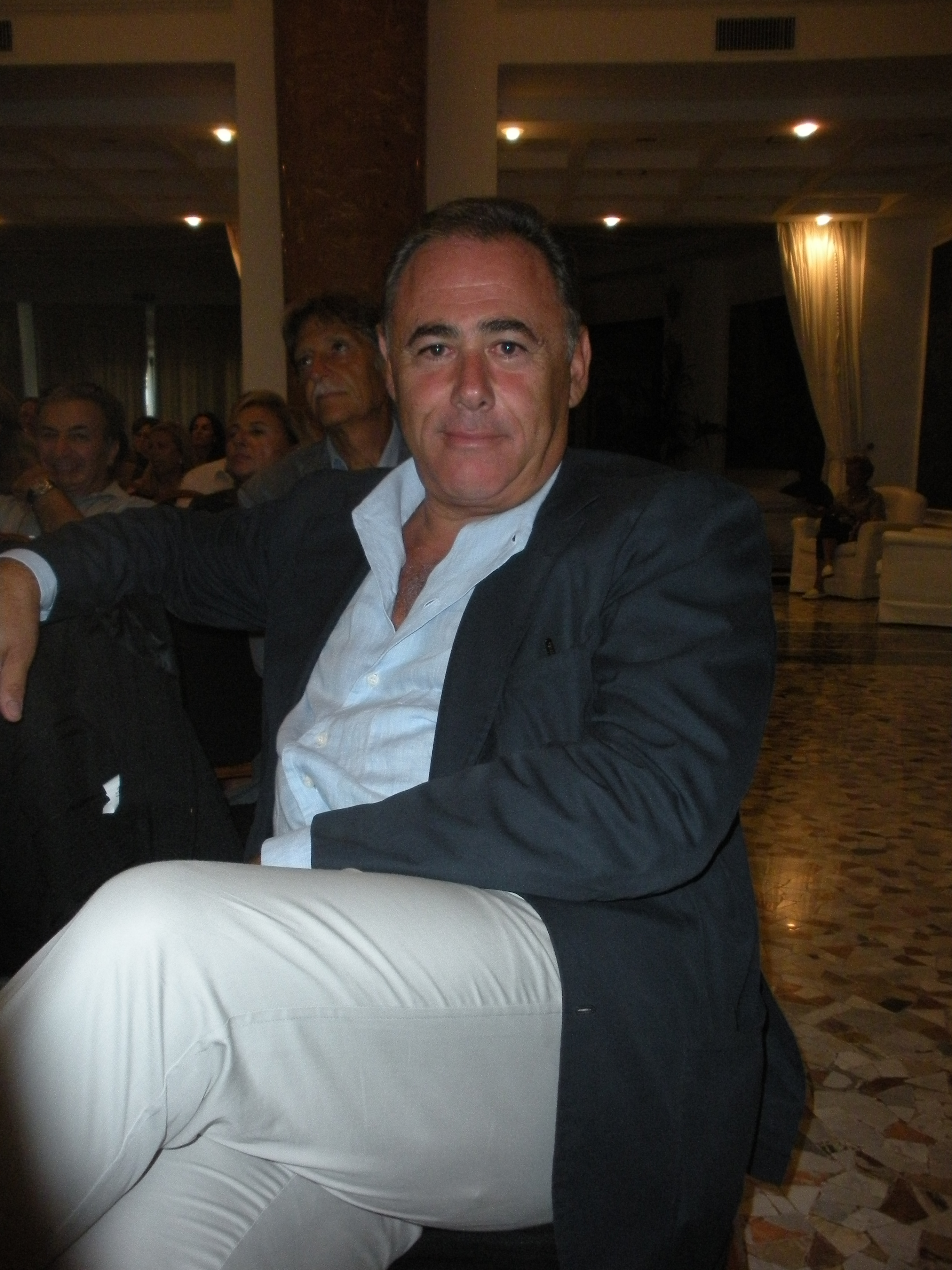 Riccardo Villari, Italian physician and politician.